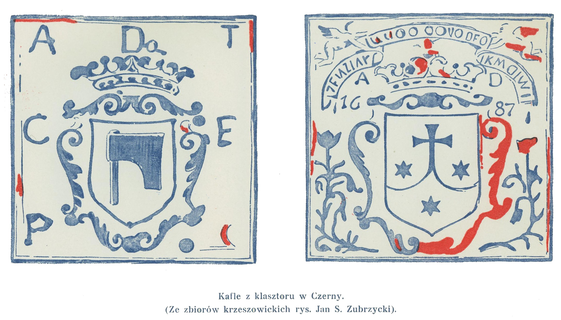 tiles from Czerny closter, Poland